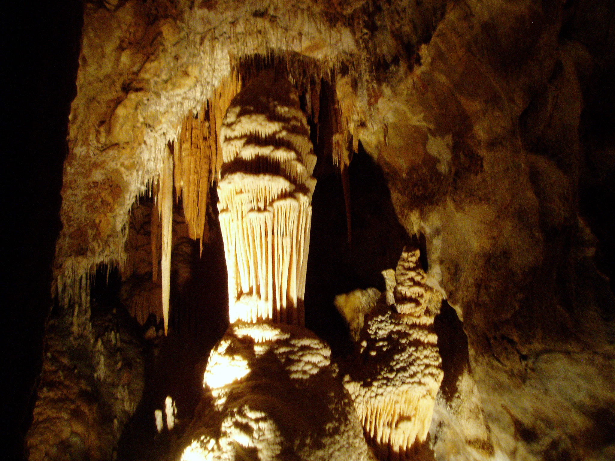 The Grand Column at Jenolan Caves, located along the River Cave tour. The second large stalagmite on the right was originally in the Column's location, but the ground collapsed at its base and it has fallen sideways; the current Column has regrown from the same place and partially covered the old one.